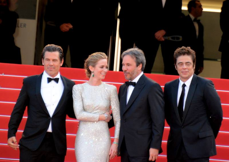 Director and stars of "Sicario" at the Cannes film festival